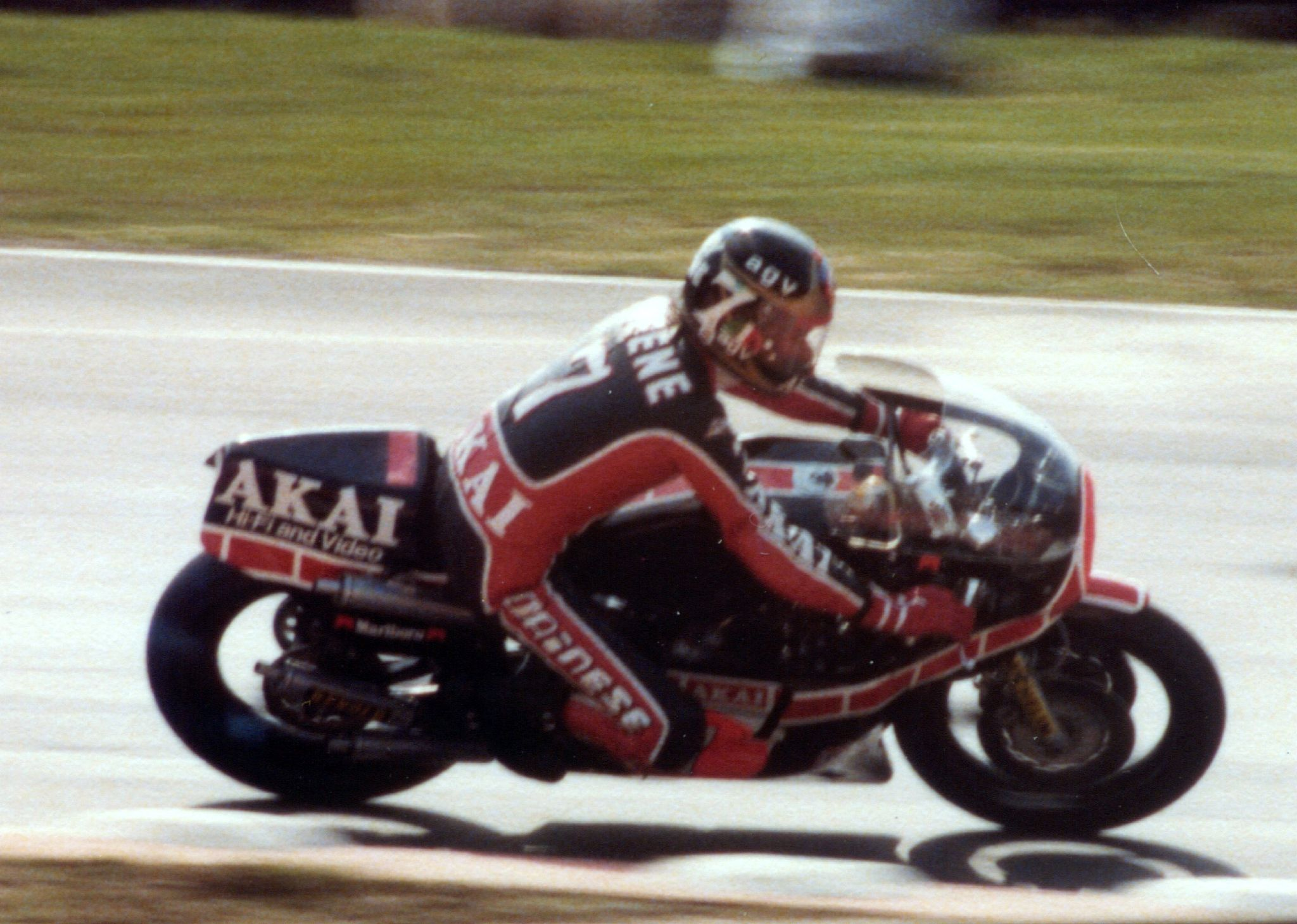 Barry Sheene